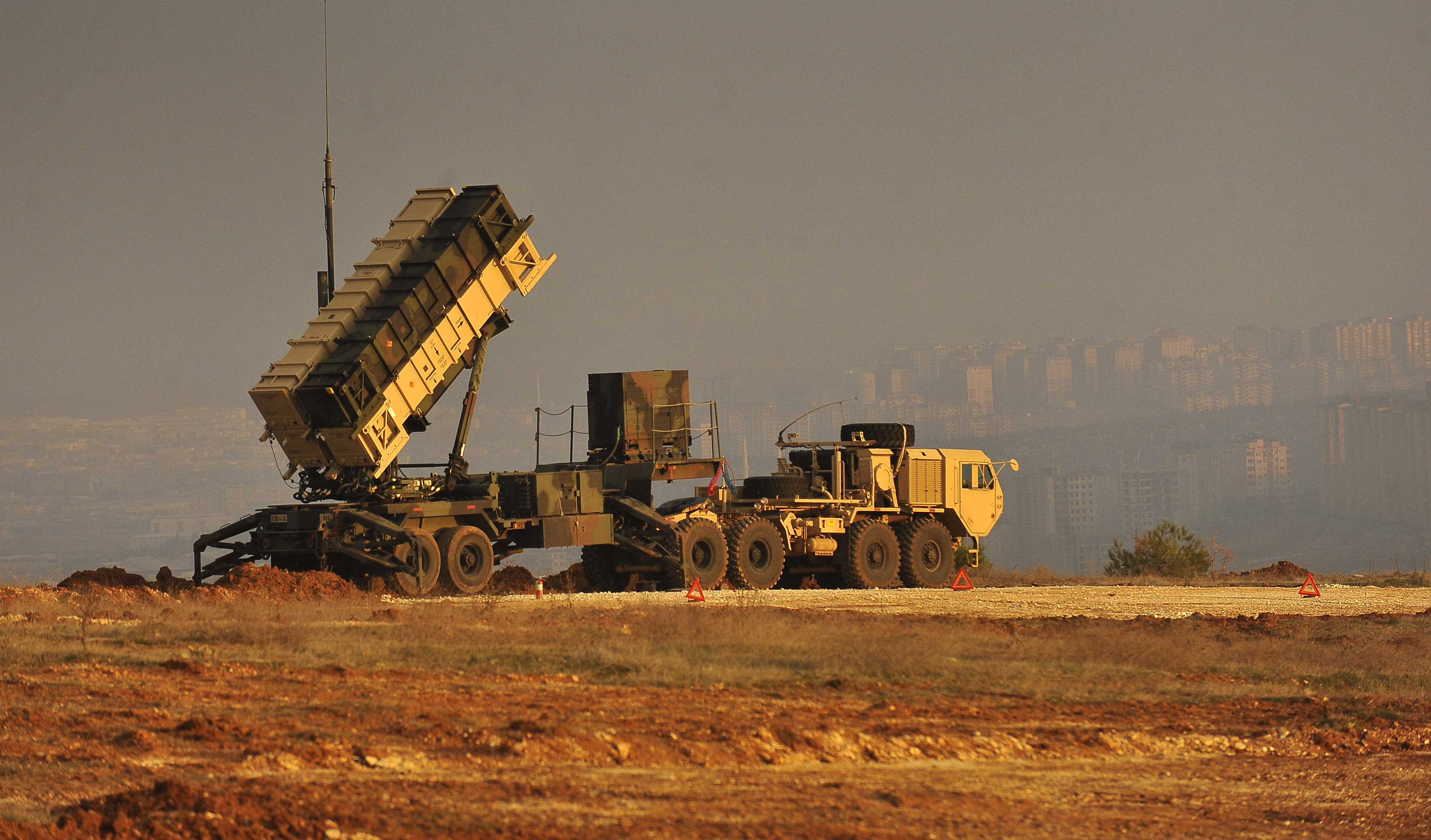 A Patriot missile battery sits on an overlook at a Turkish army base in Gaziantep, Turkey, Feb. 4, 2013. U.S. Deputy Secretary of Defense Ashton B. Carter was visiting the area to view Patriot missile batteries installed with assistance from U.S. Service members. U.S. and NATO Patriot missile batteries and personnel deployed to Turkey in support of NATO's commitment to defending Turkey's security during a period of regional instability.